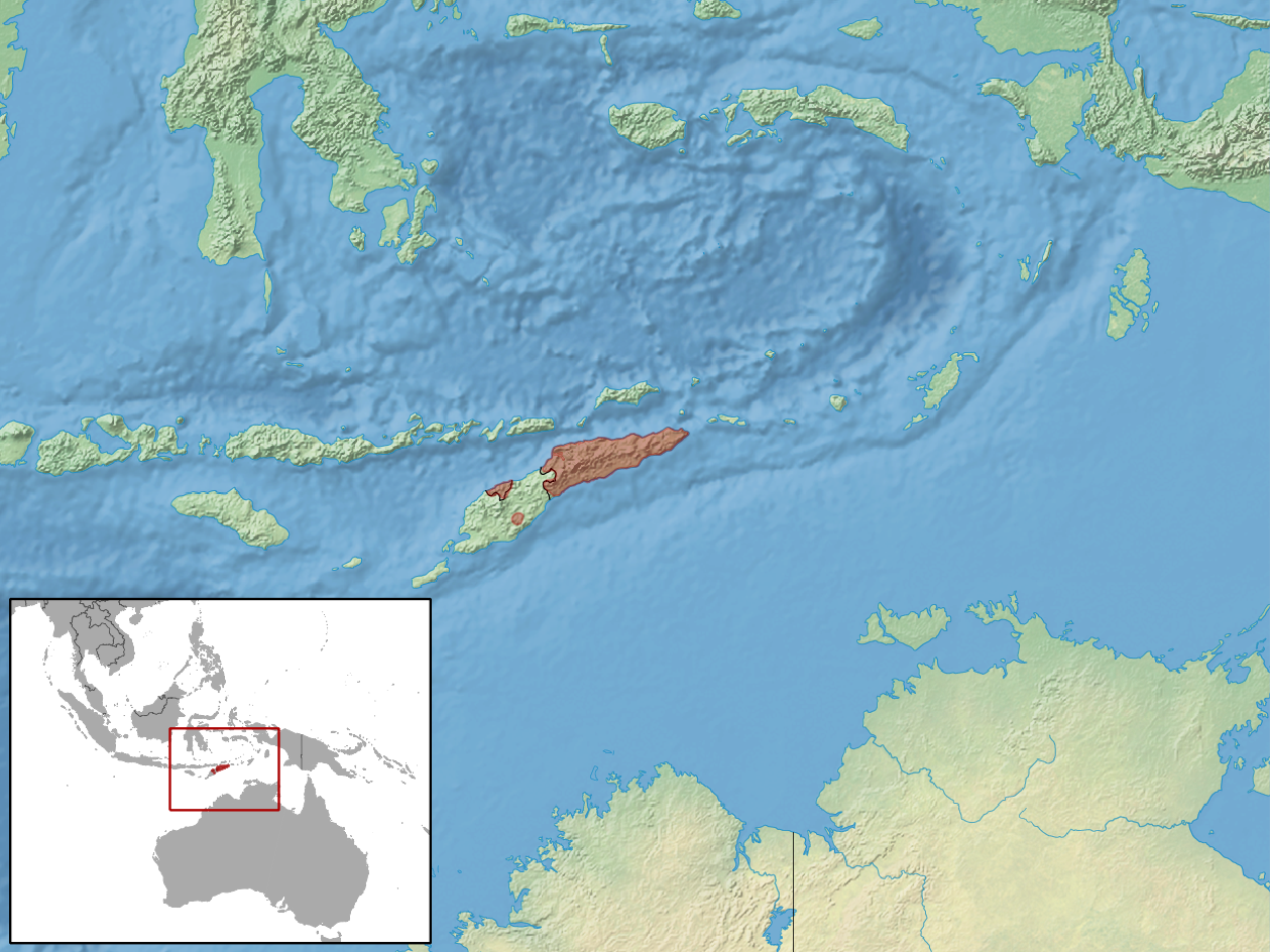 geographic distribution of Eremiascincus timorensis